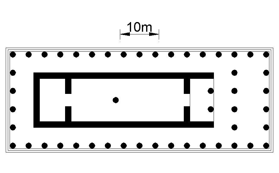 Siracusa, Sicily. Plan of the Olympieion.